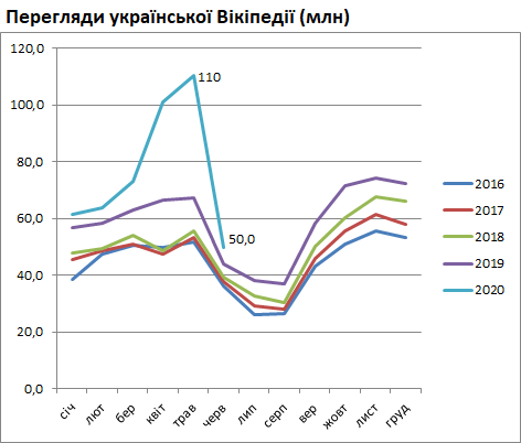 Ukrainian Wikipedia page view statistics 2020-07-01